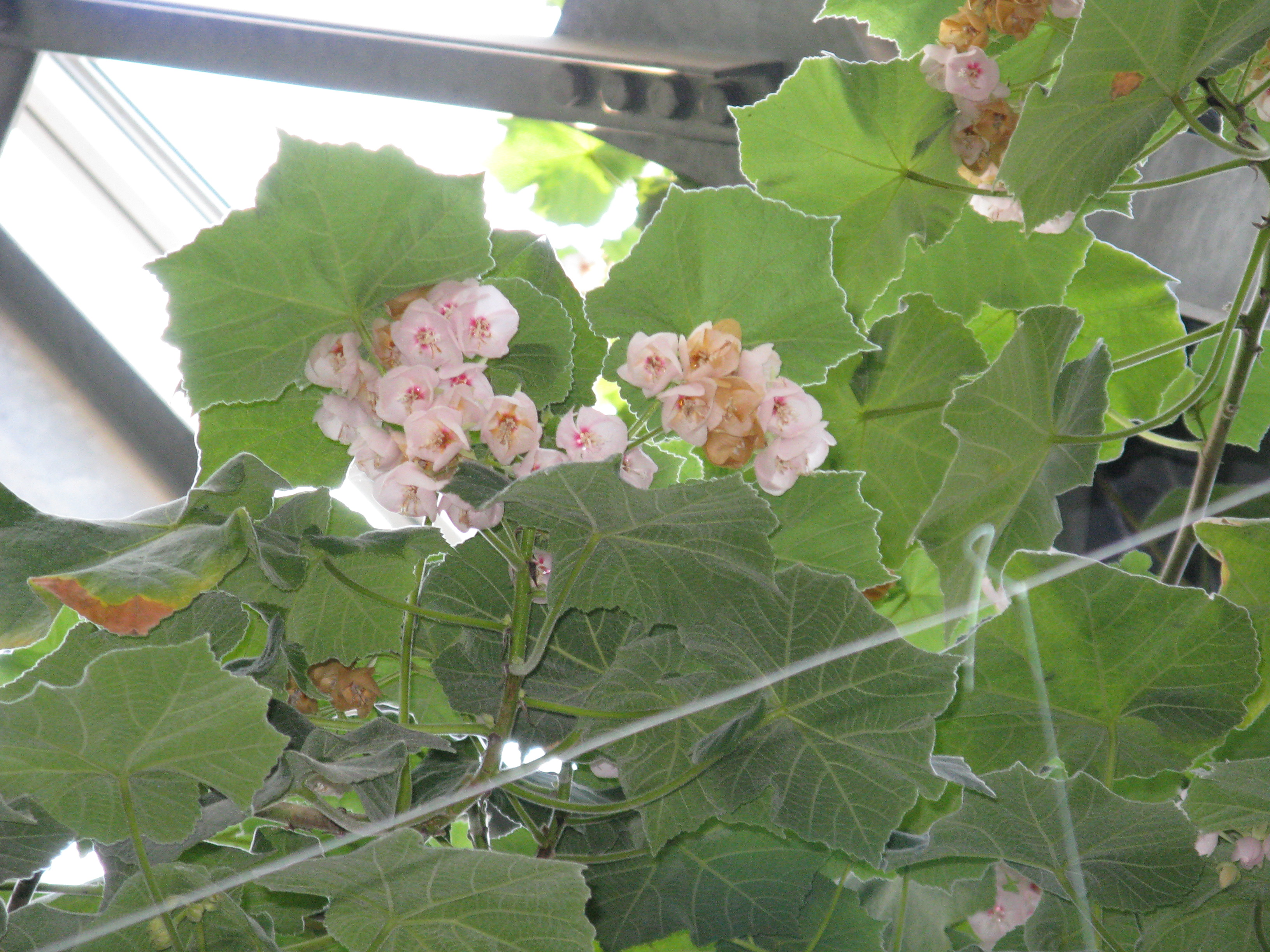 Scientific name Dombeya burgessiae Place:Osaka Prefectural Flower Garden,Osaka,Japan